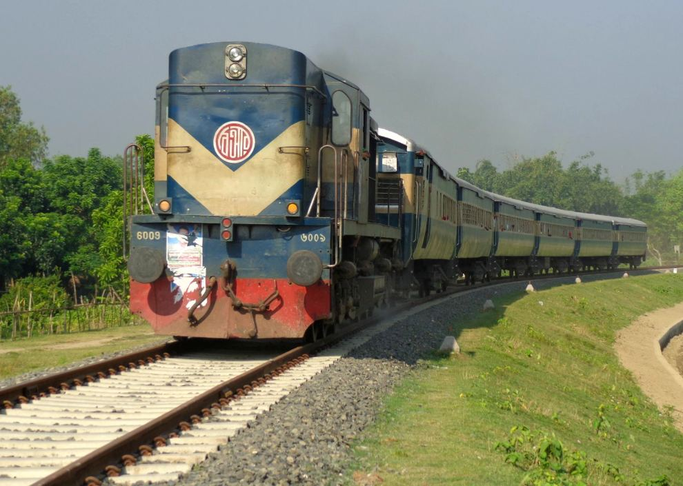 place :near giandia bazar,faridpur.